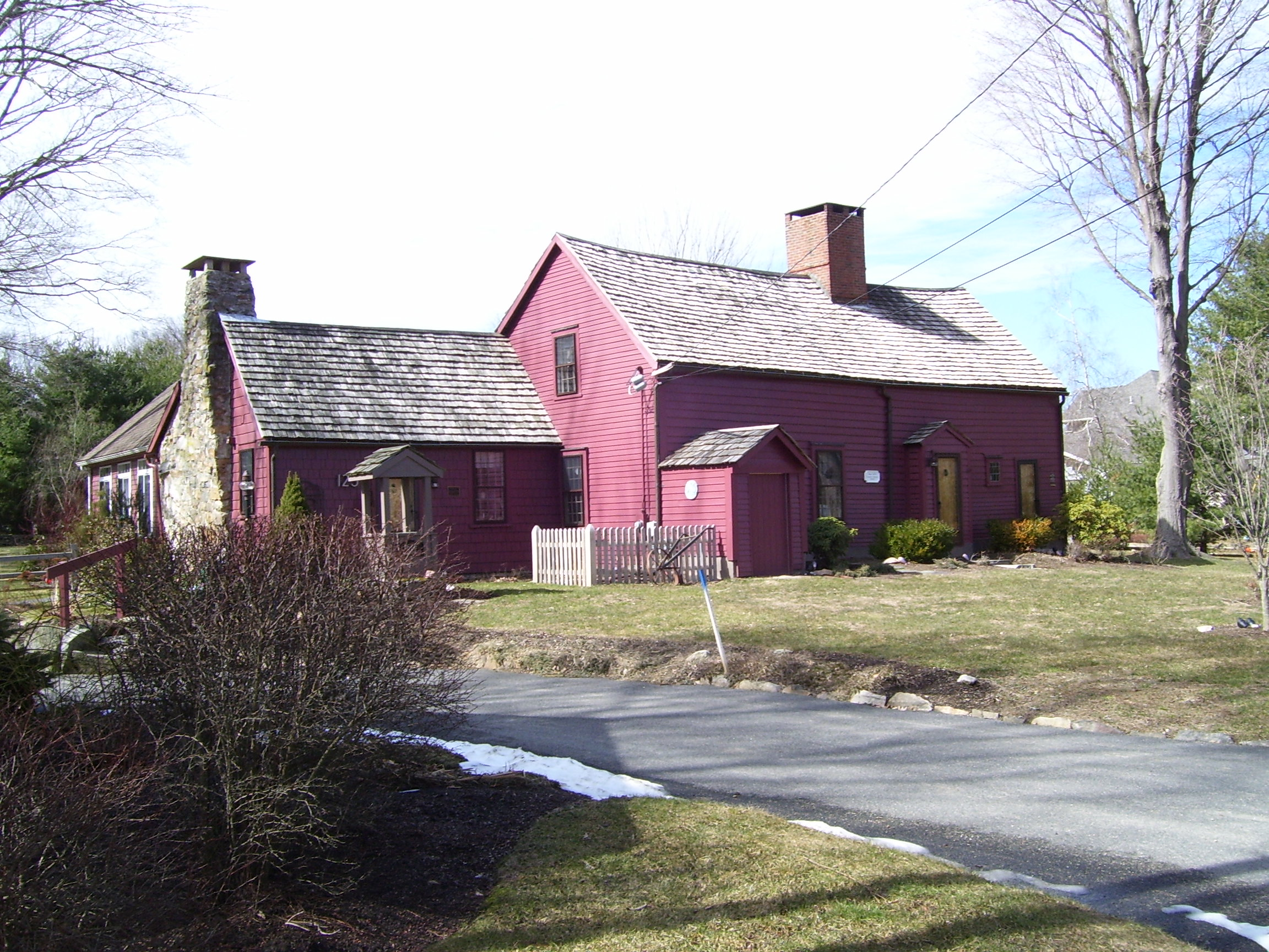 2009 photo of the Clement Weaver house in Rhode Island.